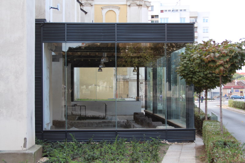 Archeological Exploration and Museum, Saint Bartholomew Church, Gyöngyös, Hungary